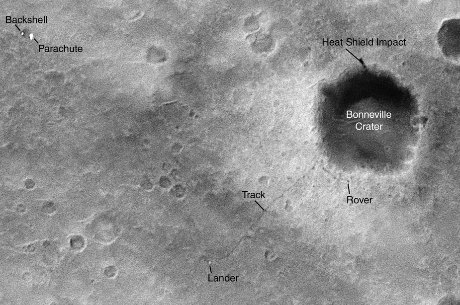 Image of the Mars Exploration Rover (MER-A) Spirit landing site, rover and tracks on Mars. The image was taken by the Mars Global Surveyor spacecraft on March 30, 2004 from orbit. The image covers an area 3 km wide. NASA/JPL/Malin Space Science Systems. Used under the MSSS guidelines